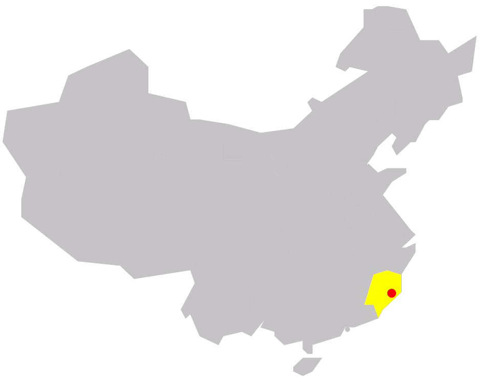 Description: position of Fuzhou in China Source: own work Date: December 2005 Author: --Immanuel Giel 13:28, 15 December 2005 (UTC) Other versions: none